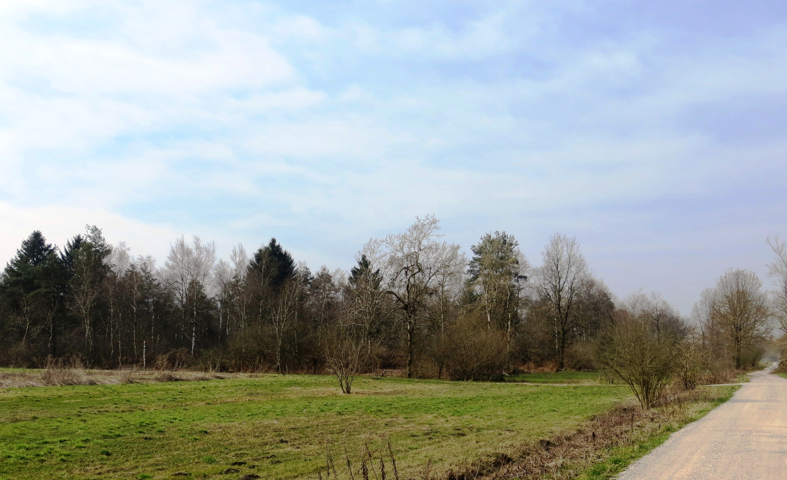 Kosler's Thicket in Brest, Municipality of Ig, Slovenia